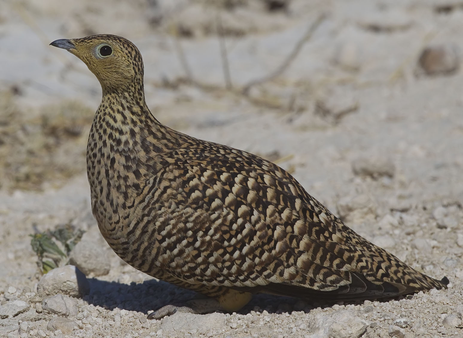 Namaqua sandgrouse female, Etosha National Park